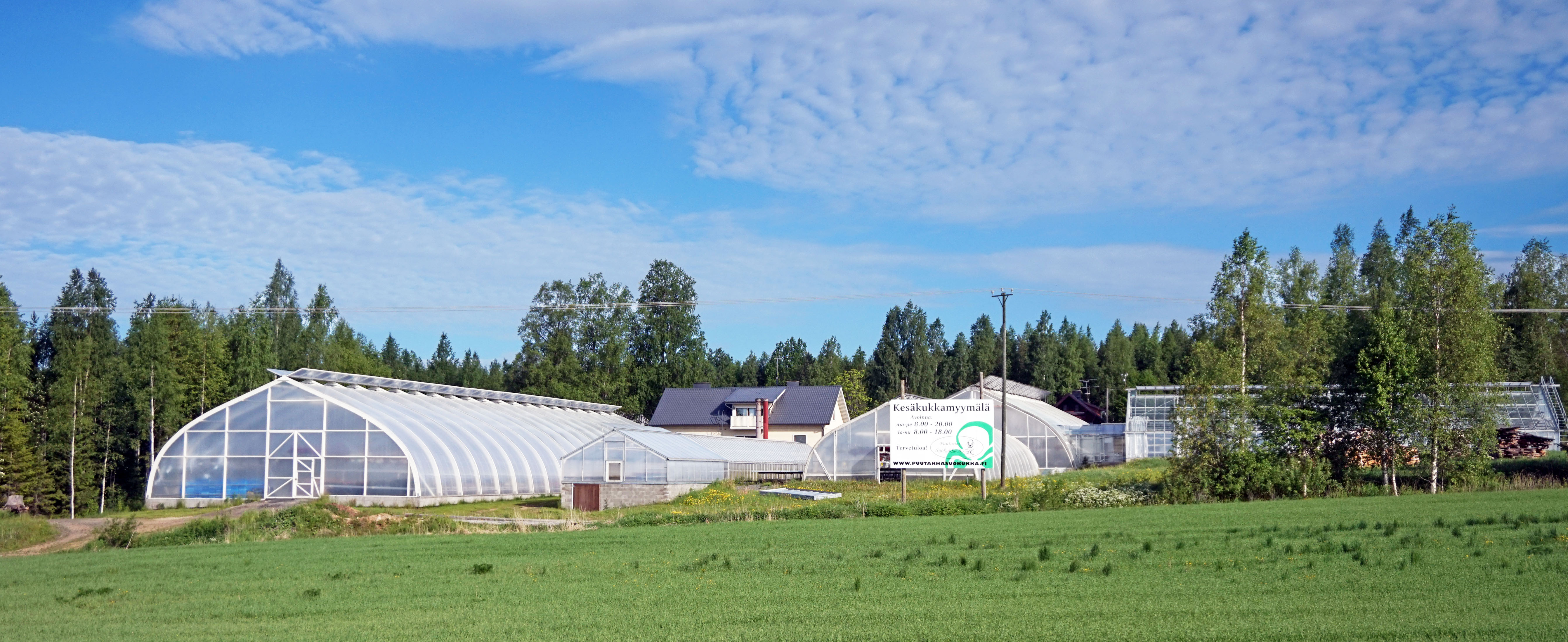 A greenhouse in Saakoksi village, Jyväskylä.This photograph was taken with a Sony ILCE-5000